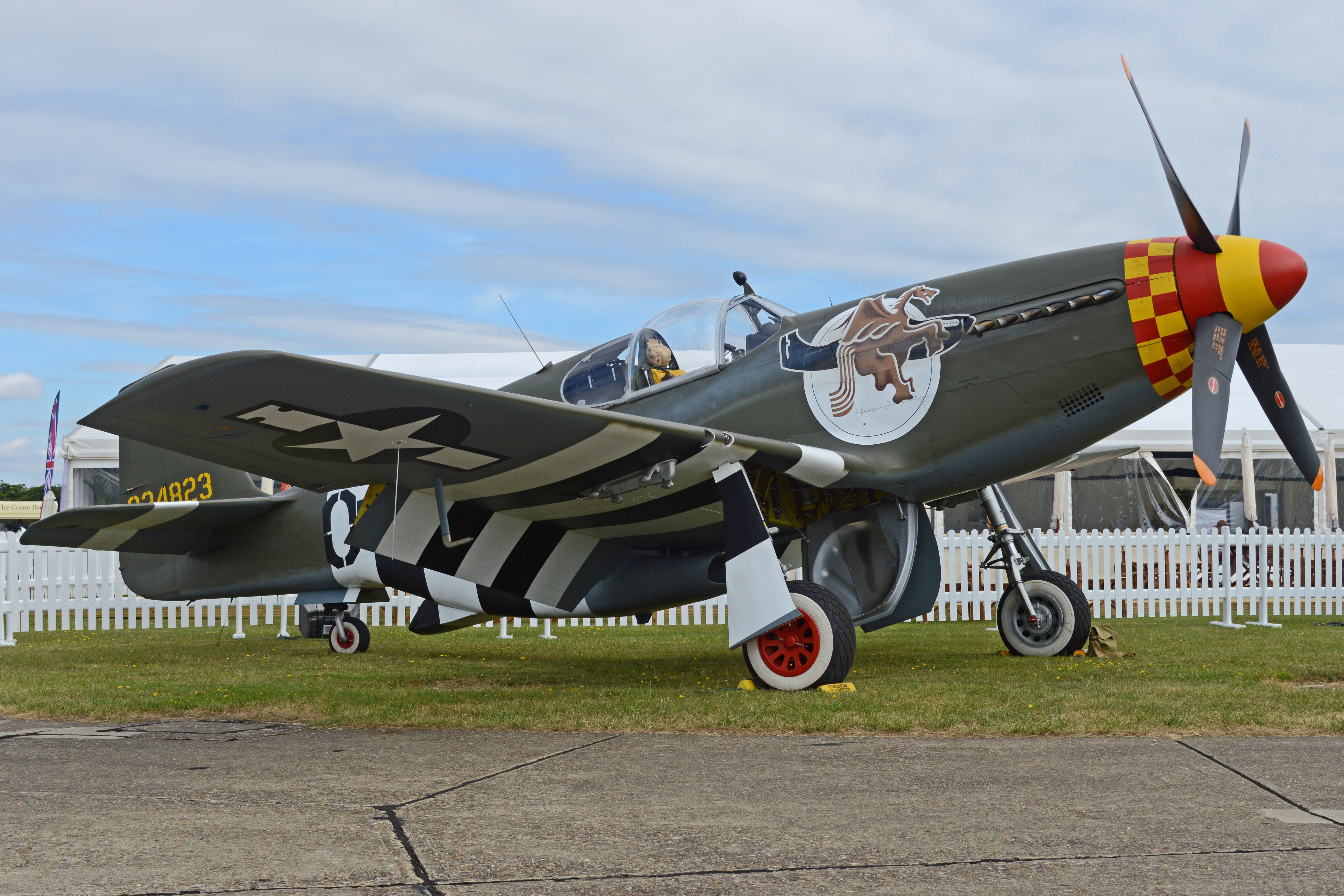 /n 104-25866. Actual US military serial 43-24937. Crashed UK 10th June 1944. Rebuild based on salvaged parts completed with first flight 7th November 2014. Now operated by Comanche Fighters and flown across the Atlantic from the United States for UK airshows in 2017. 2017 Flying Legends Airshow, Duxford Airfield, Camabridgeshire, UK. 8th July 2017.